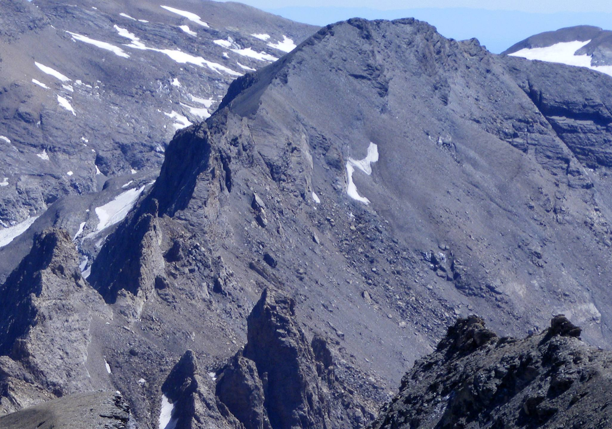 Punta Marmottere (Graian ALps) as seen from Pointe du Lamet